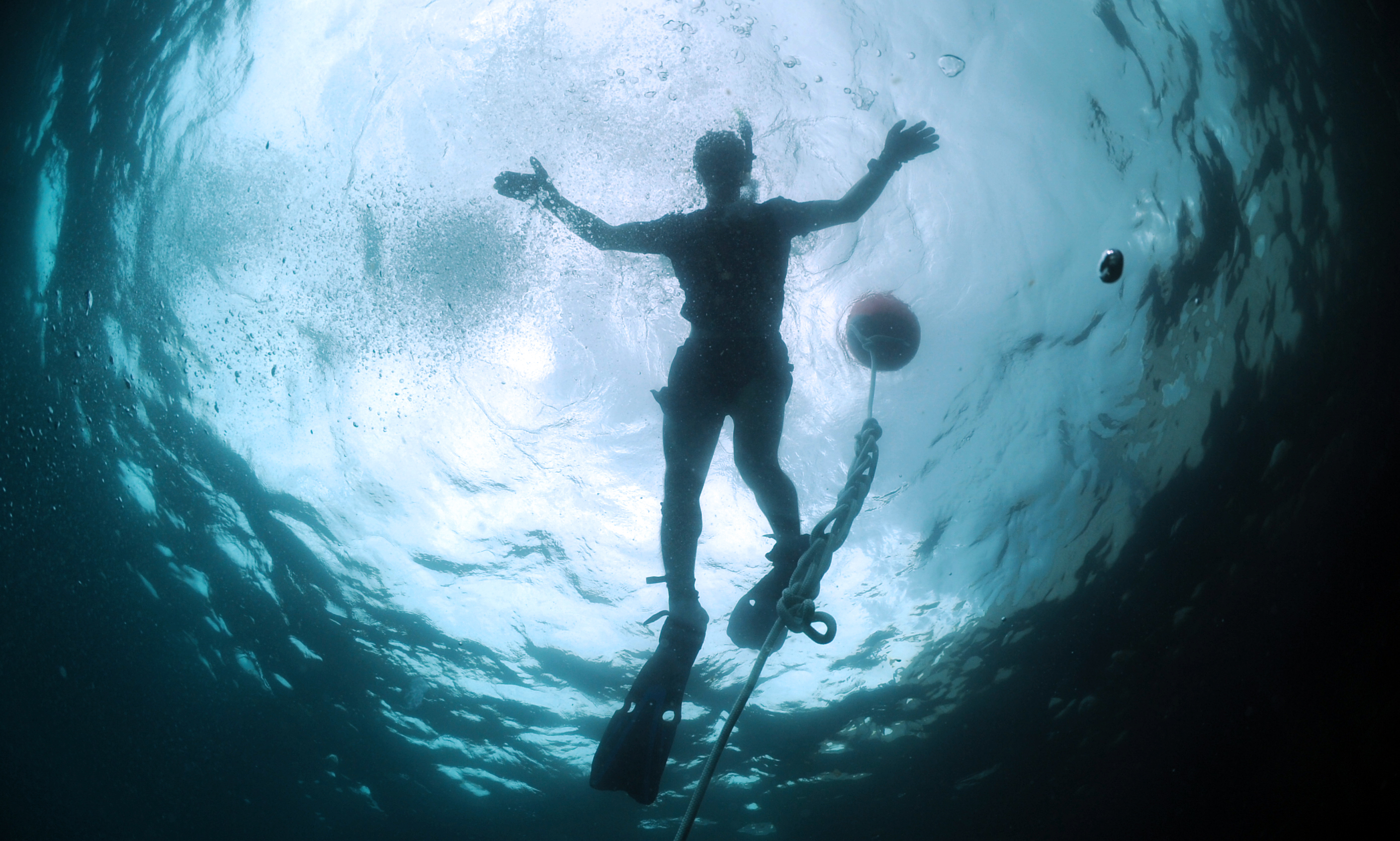 BRIDGETOWN, Barbados (June 7, 2011) Navy Diver 2nd Class Ryan Arnold, assigned to Mobile Diving and Salvage Unit 2, snorkels on the surface to monitor multinational divers below conducting diving operations. MDSU-2 is participating in Navy Diver-Southern Partnership Station, a multinational partnership engagement designed to increase interoperability and partner nation capacity through diving operations. (U.S. Navy photo by Mass Communication Specialist 1st Class Jayme Pastoric/Released)